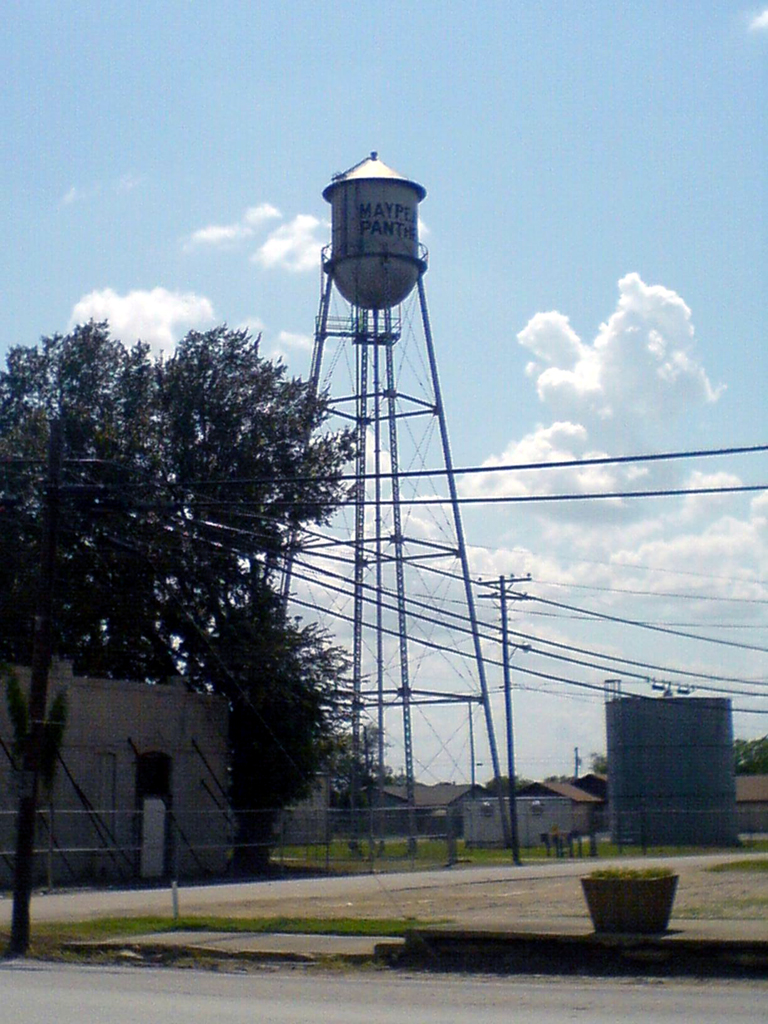 The Maypearl water tower. Photo by Danny Burton, 07/22/07.